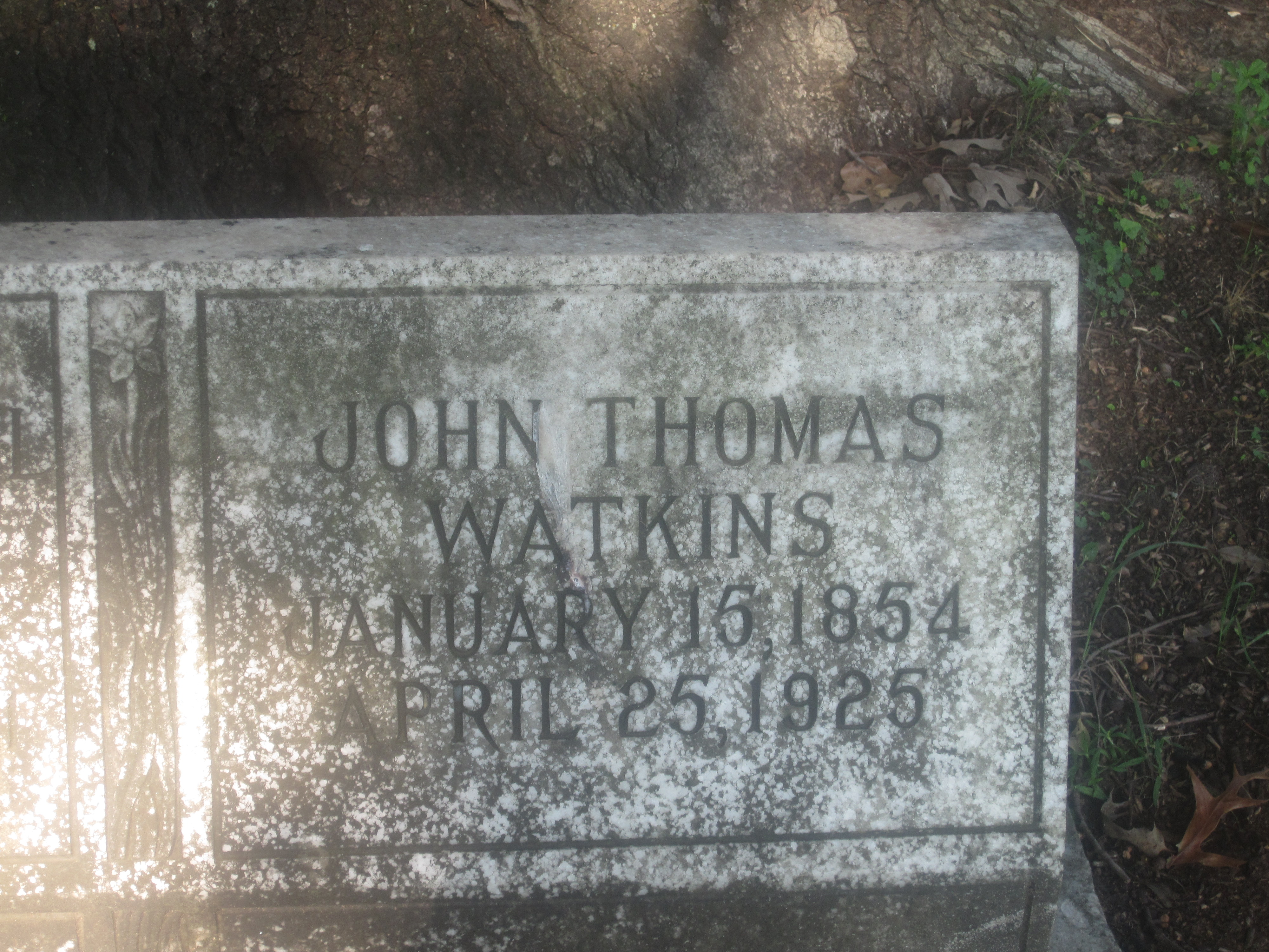 Grave of John T. Watkins in Minden, LA, Cemetery